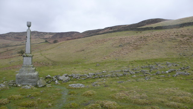 Covenanters Communion Monument and stones This cairn was constructed in 1870 to mark the spot where covenanters gathered in 1678 to worship.